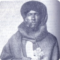 St. Abune Petros photograph before July 29, 1936.